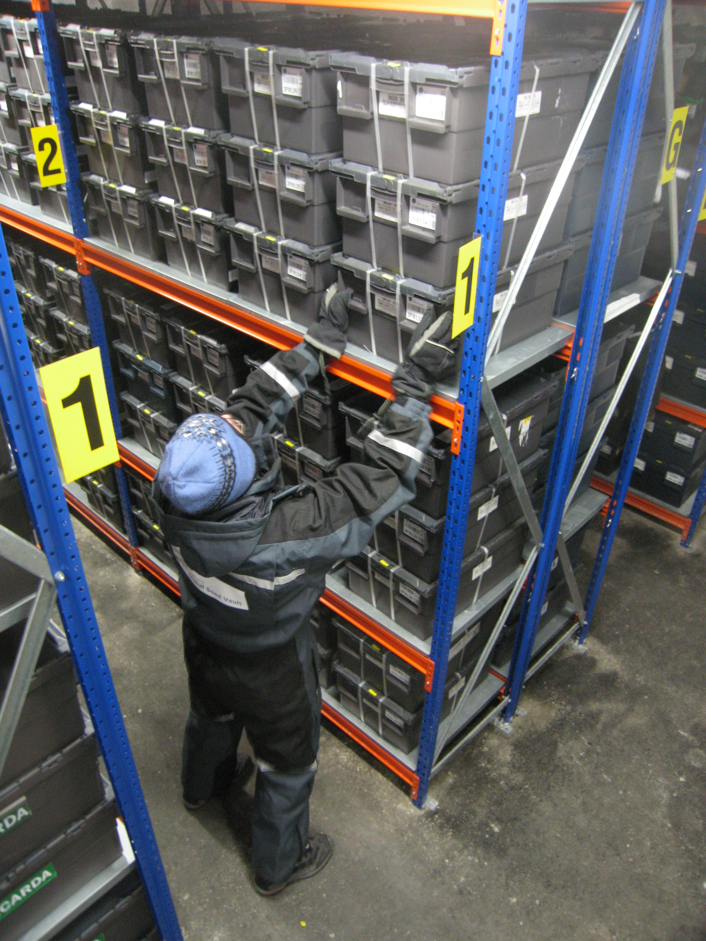 The Svalbard Global Seed Vault provides a safe backup of seeds on food crops conserved by seedbanks worldwide. This picture from inside the vault shows the shelves with the boxes holding the seed samples.